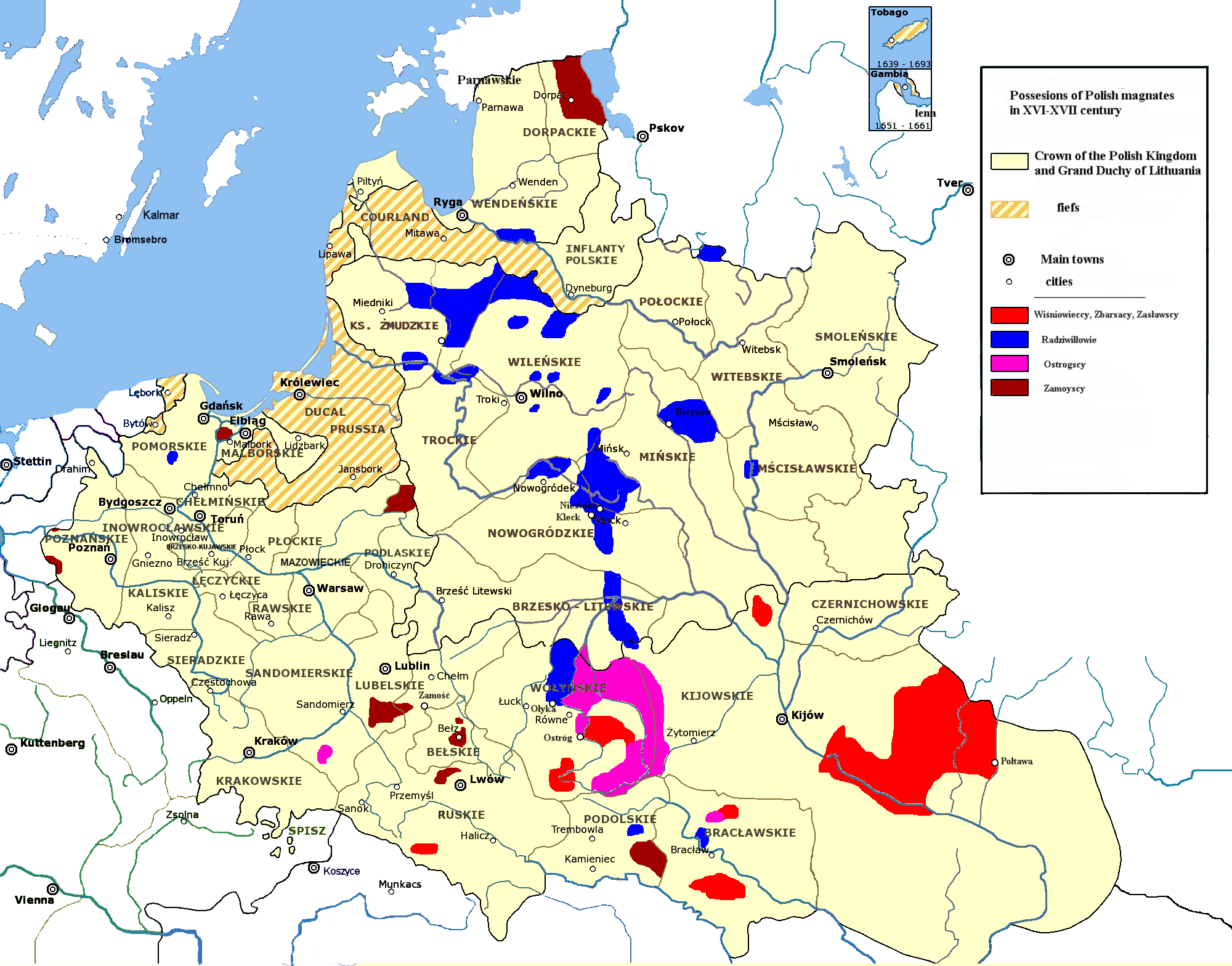 Possesions of Polish magnates in XVI-XVII century